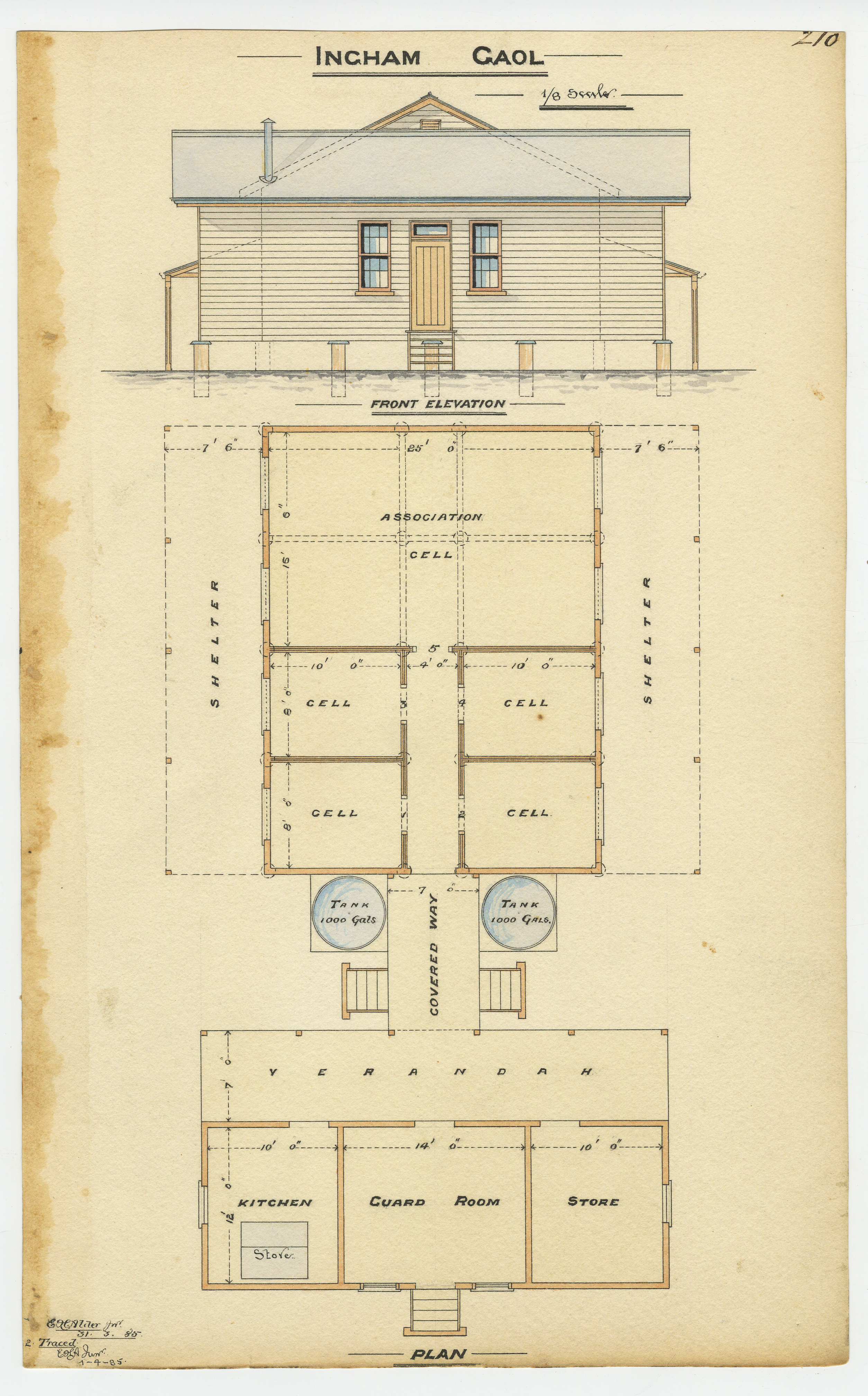 Ingham Gaol, 1887